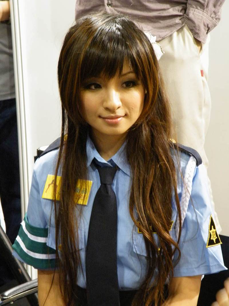 Vienna Lin (連綺嵐) at ASIA ADULT EXPO 2010